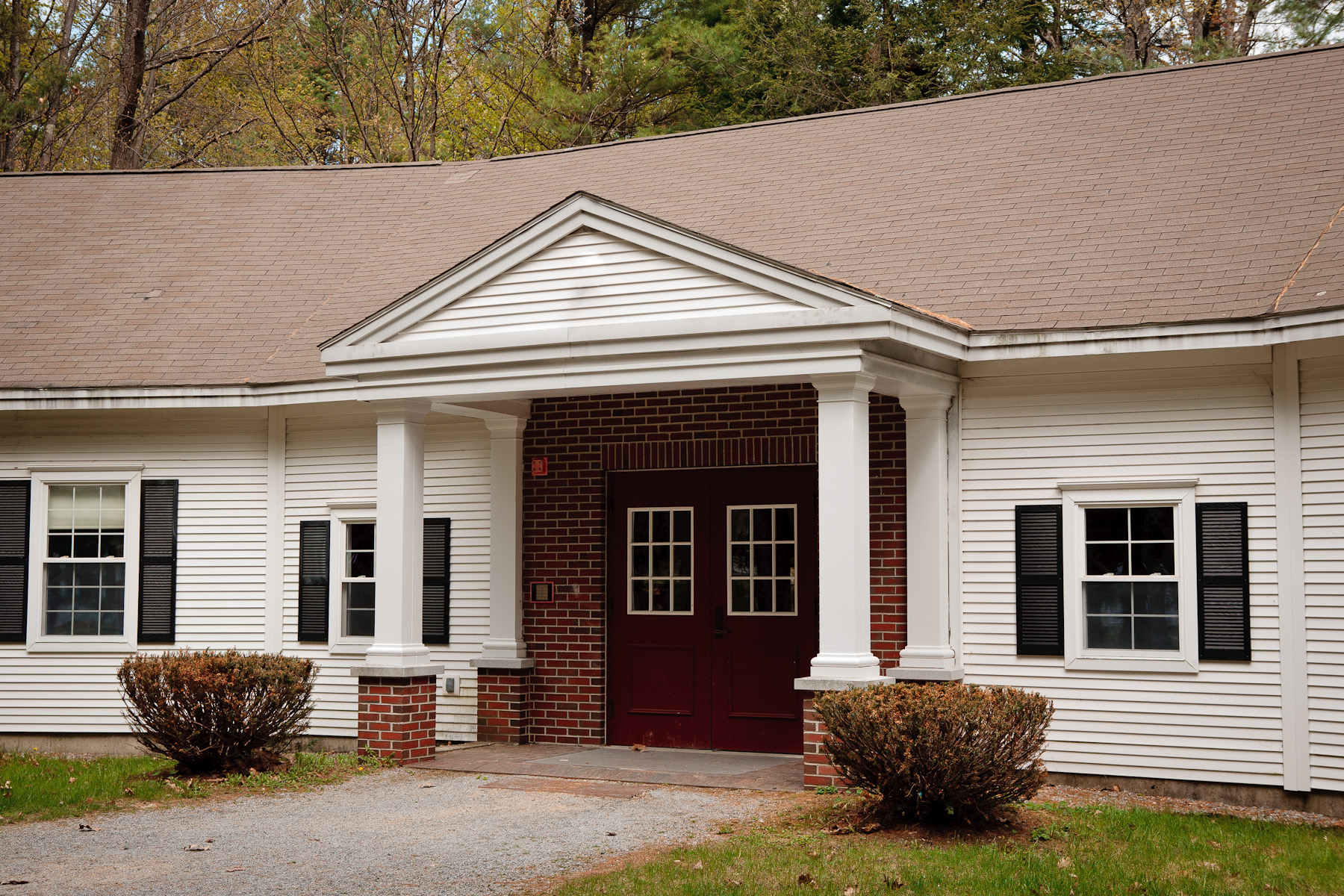 a classroom building at the College of Saint Mary Magdalen in Warner, NH, USA